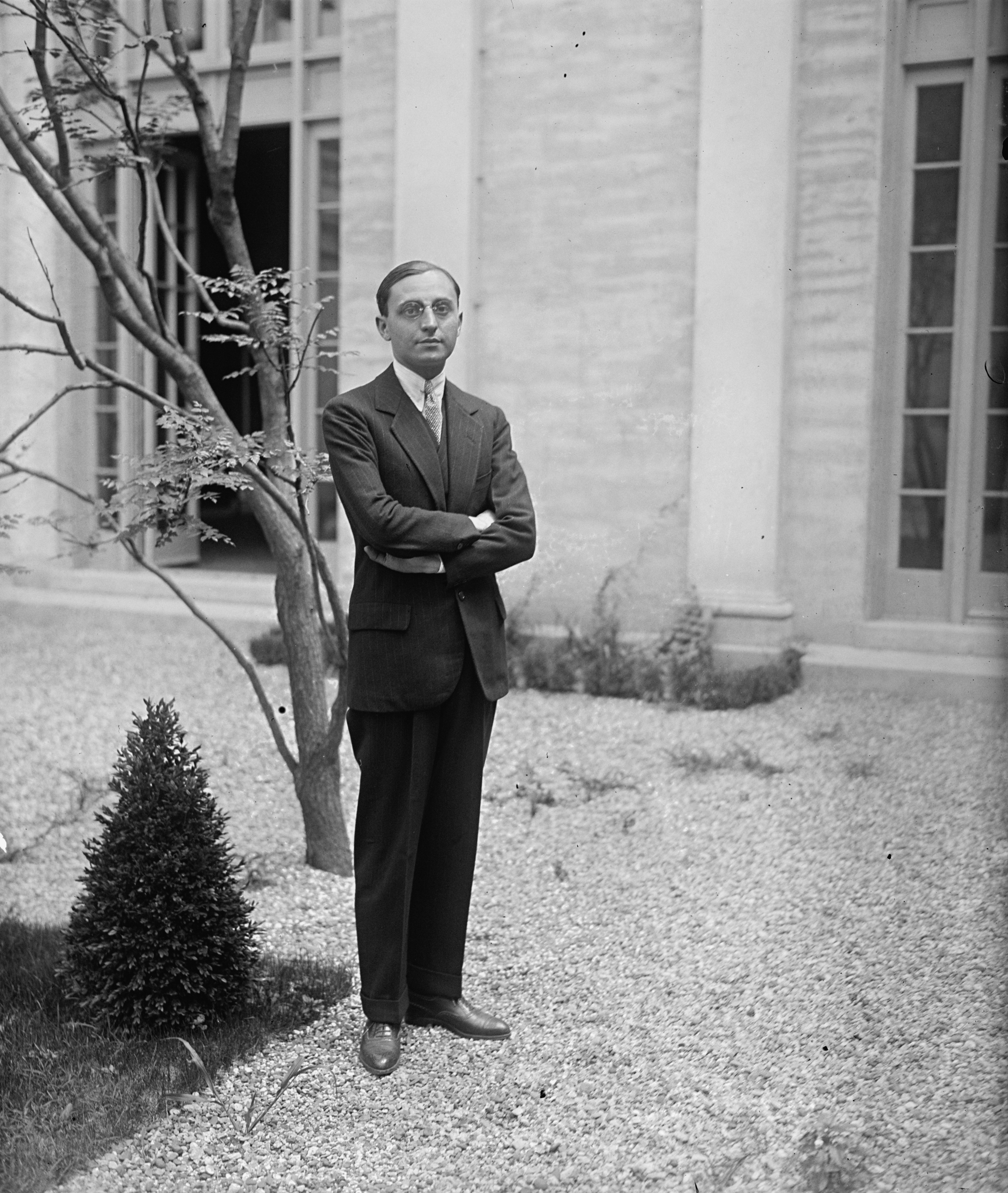 Title: Signor Leonarto Vitetti, Attache of Italian Embassy, 8/5/25 Abstract/medium: 1 negative : glass ; 4 x 5 in. or smaller